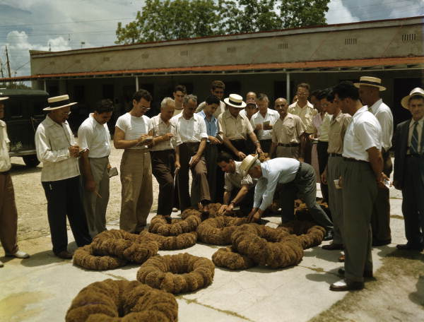 Persistent URL: Local call number: JJS0099 Title: Sponge auction in Tarpon Springs Date: June 27, 1947 Physical descrip: 1 transparency - col. - 4 x 5 in. Series Title: Repository: 500 S. Bronough St., Tallahassee, FL 32399-0250 USA. Contact: 850.245.6700.